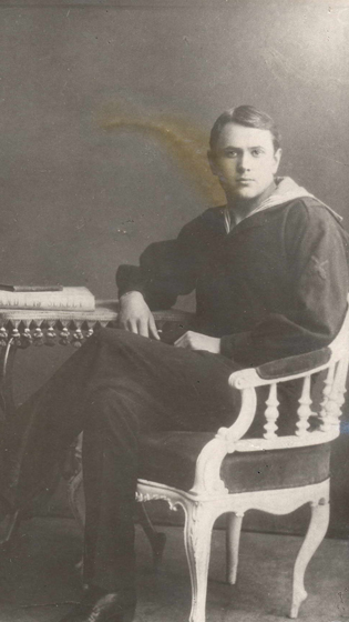 Vasily Feofilovich Kuprevich